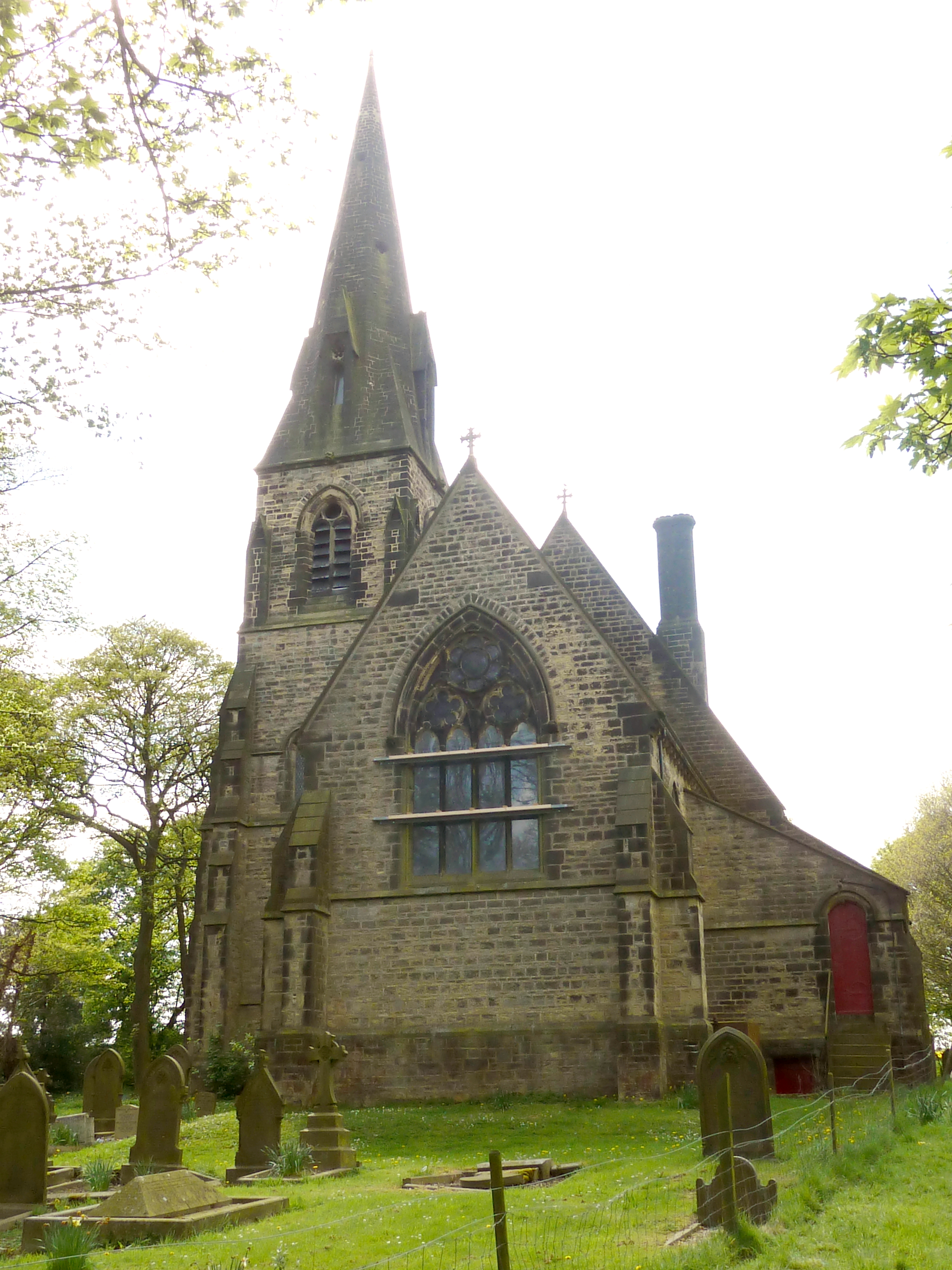 Church of St Thomas, Thurstonland, Huddersfield, West Yorkshire, England. Built 1870, designed by James Mallinson and William Swinden Barber.